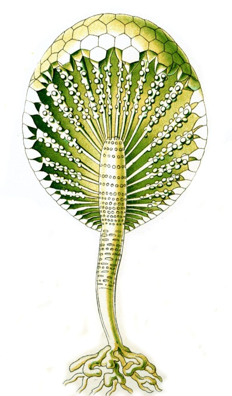 Bornetella capitata (Agardh) = Bornetella capitata (Harvey ex E.P.Wright) J.Agardh, habitus with lengthwise section through lower "head"